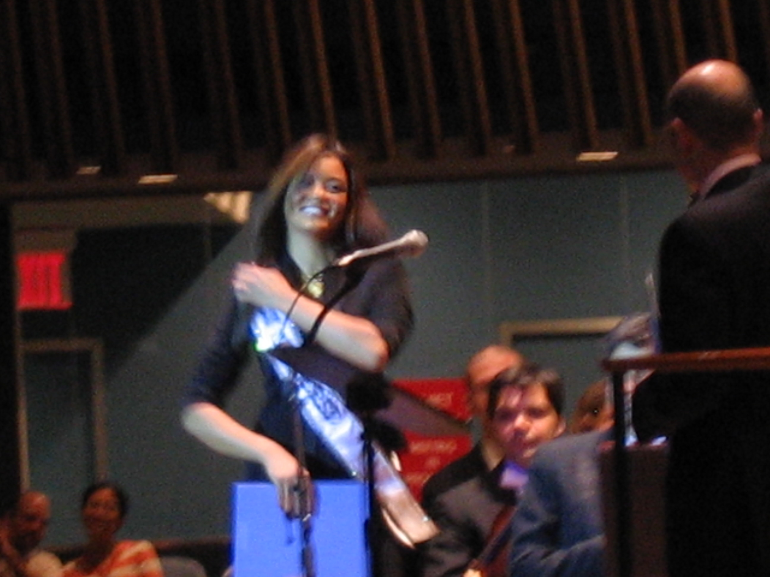 Zuleyka Rivera, Miss Universe 2006, at the "Messages of Peace" concert at the United Nations.